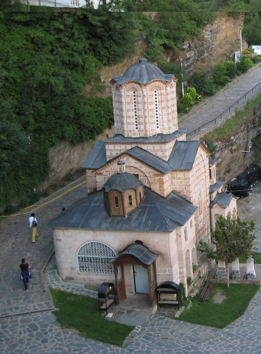 Nativity of the Theotokos Church in Osogovo Monastery, Macedonia.